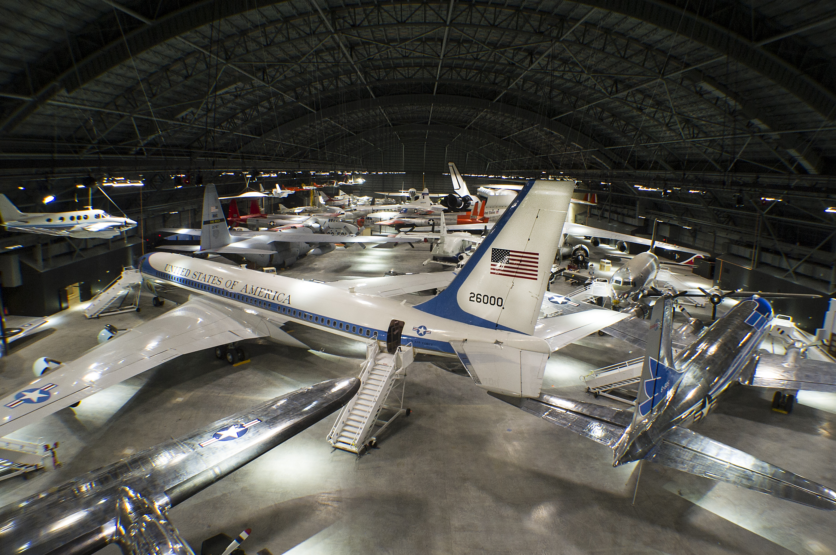 An overhead view of the Boeing VC-137C SAM 26000 (Air Force One) at the National Museum of the United States Air Force. (U.S. Air Force photo by Ken LaRock) Public Domain